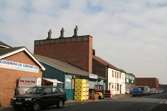 Russell Fish Smoking and Processing Factory on Riby Street, Grimsby